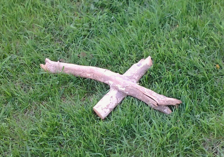 Root Grafts happen when a root from one tree fuses/grows together with a root from another tree of the same species.